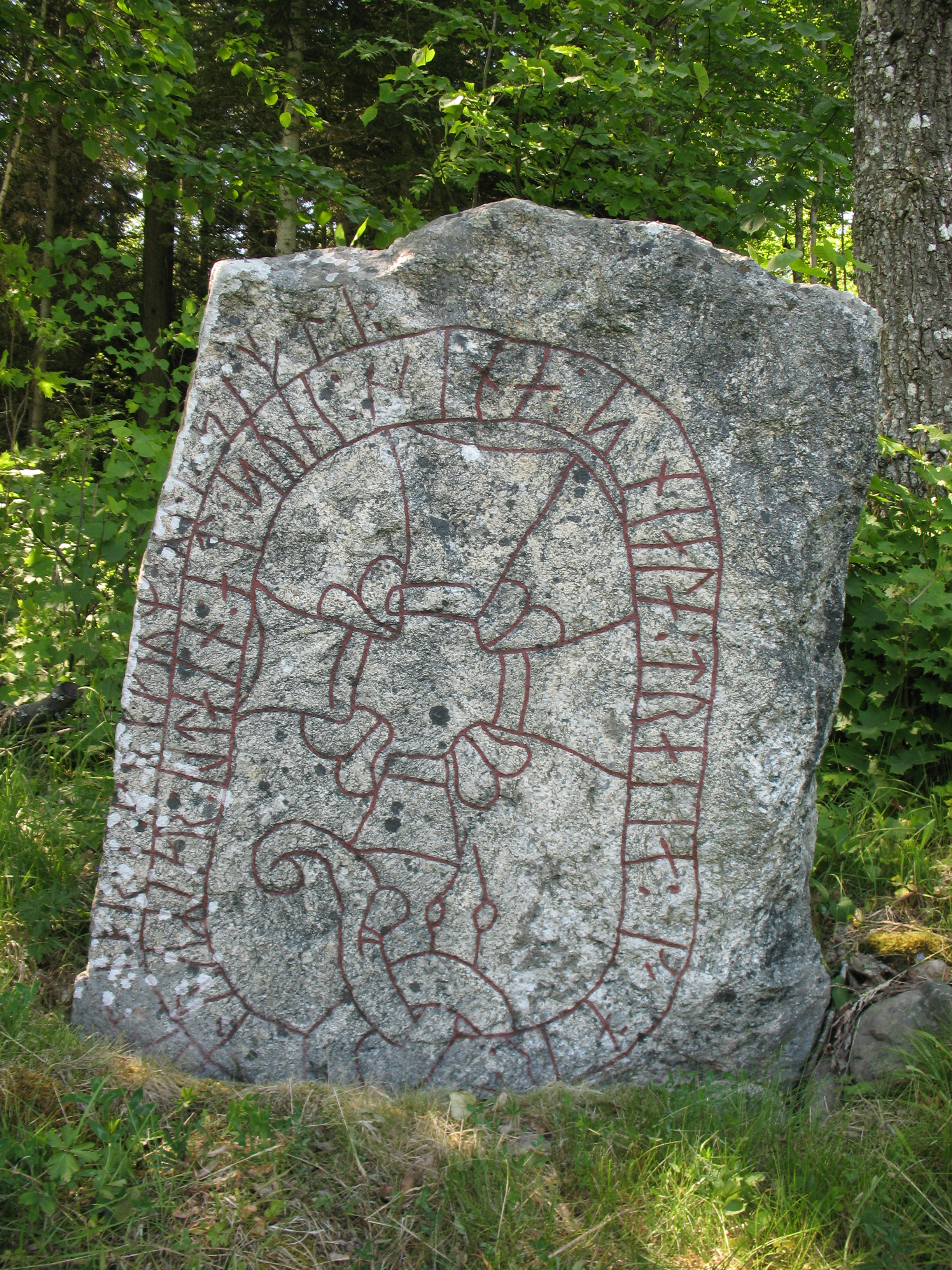 Runestone Sö 163 near the avenue of the manor Täckhammar in Södermanland, Sweden.